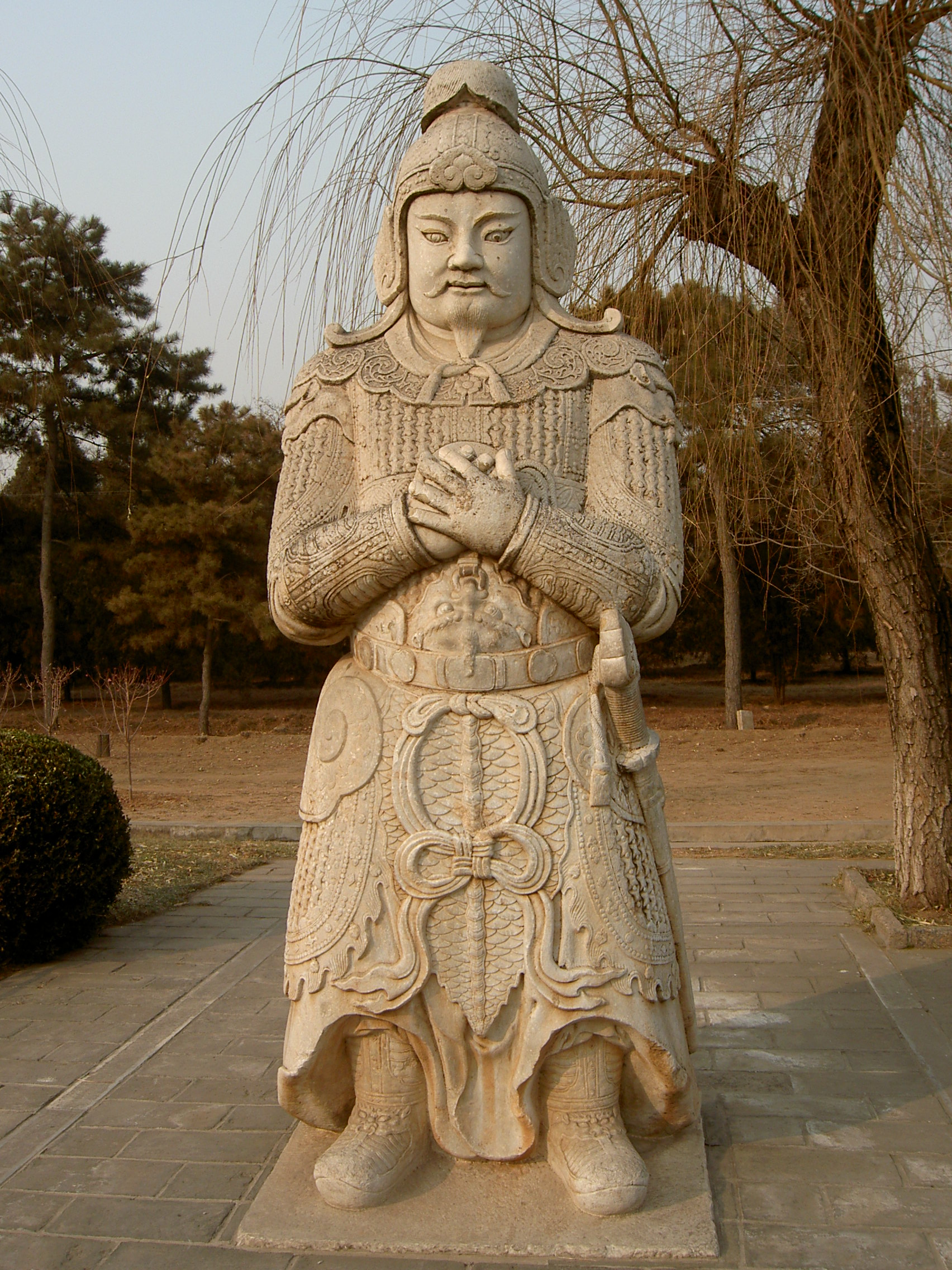 author : ofol date 29-12-2005 voie des âmes, Changping, région de pékin "ways of souls" tombs of the Emperors of the Ming Dynasty (AD 1368 to 1644). 50km north west of Beijing, in Changping. beijing region, ming graves, way of souls